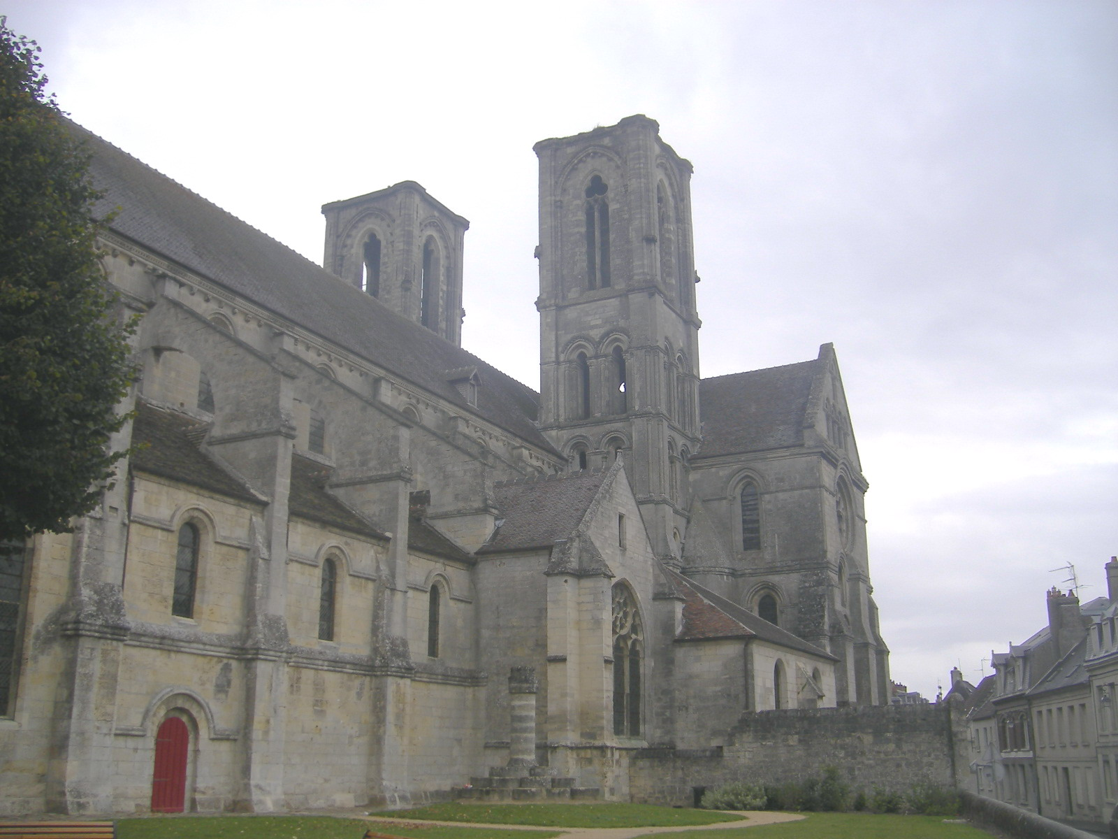 Church of Saint Martin in Laon